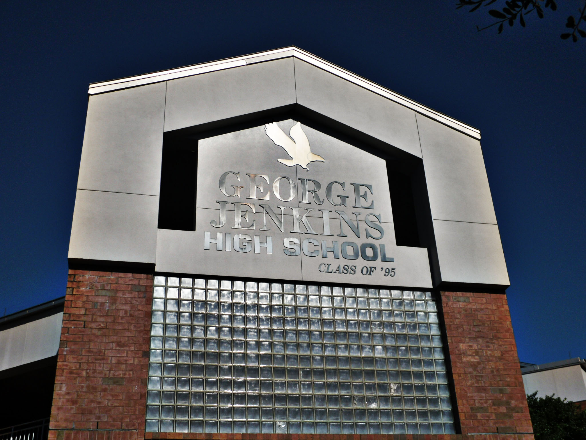 I took this picture myself at the school.